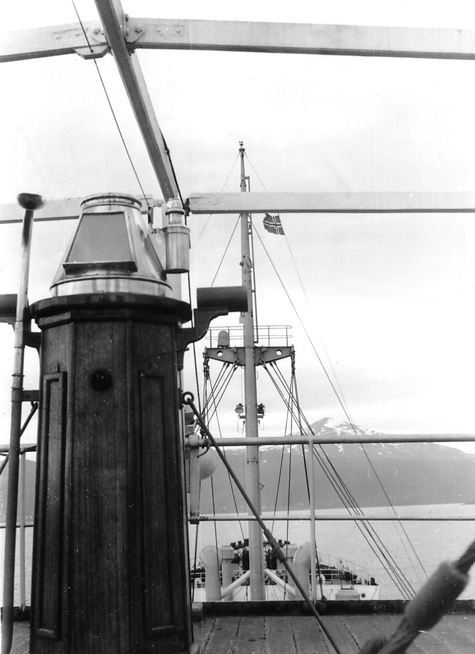 Observation deck with a magnetic compass on board cargo ship Bernhard Howaldt - 1957